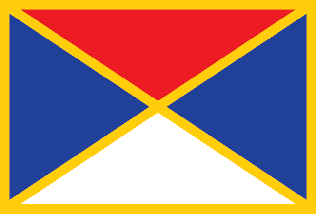 Flag of Žagubica